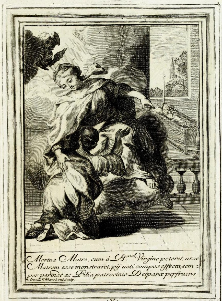 Plate 9 from Arnold van Westerhout's Vita effigiata della serafica vergine S. Teresa di Gesu, fondatrice dell'Ordine Carmelitano Scalzo, published in 1719 in Rome by Arnold van Westerhout. The illustrations were made and engraved by Arnold van Westherhout. They depict events in the life of the Catholic Saint Teresa of Ávila.